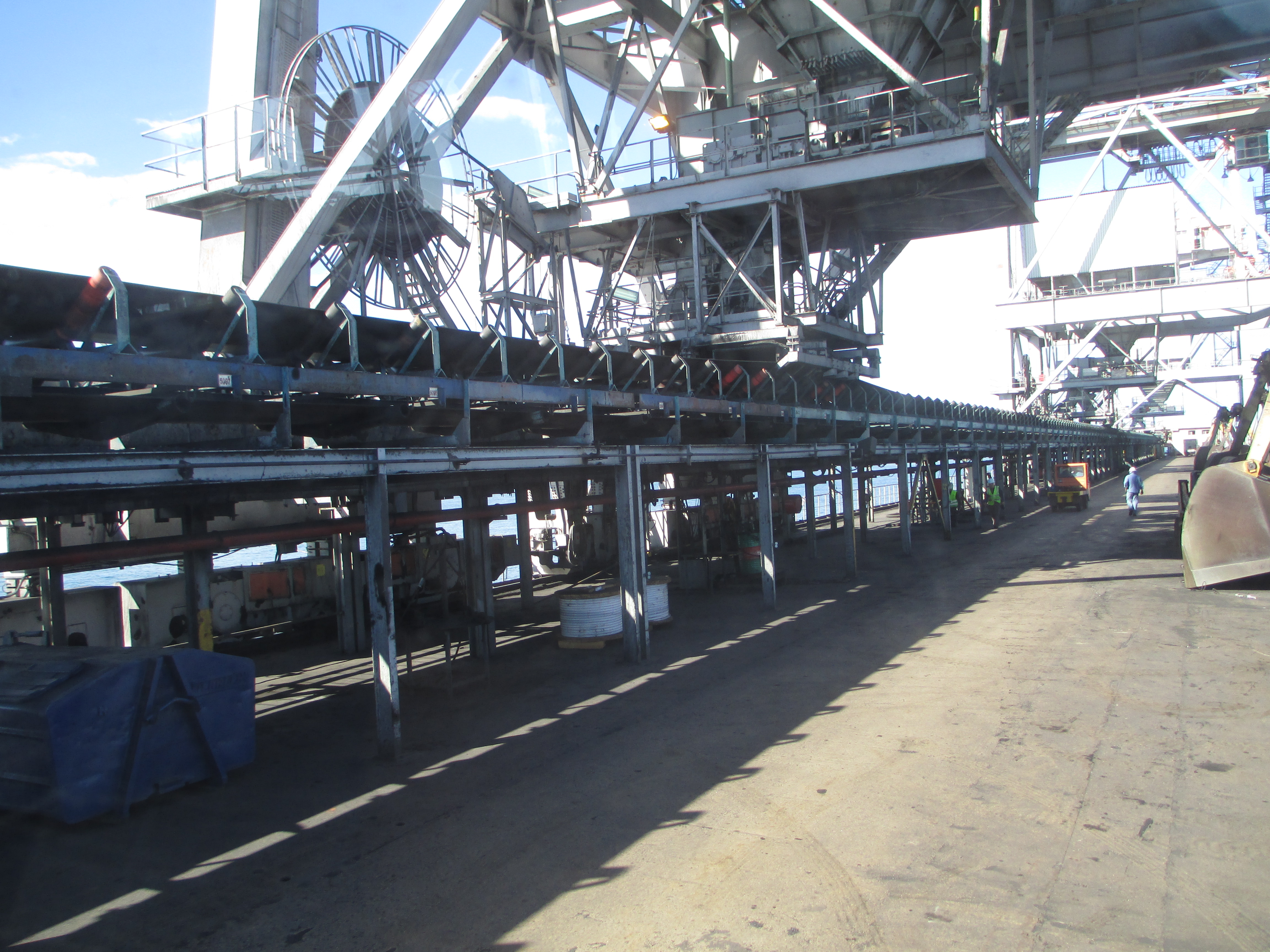 Orot Rabin Power Station